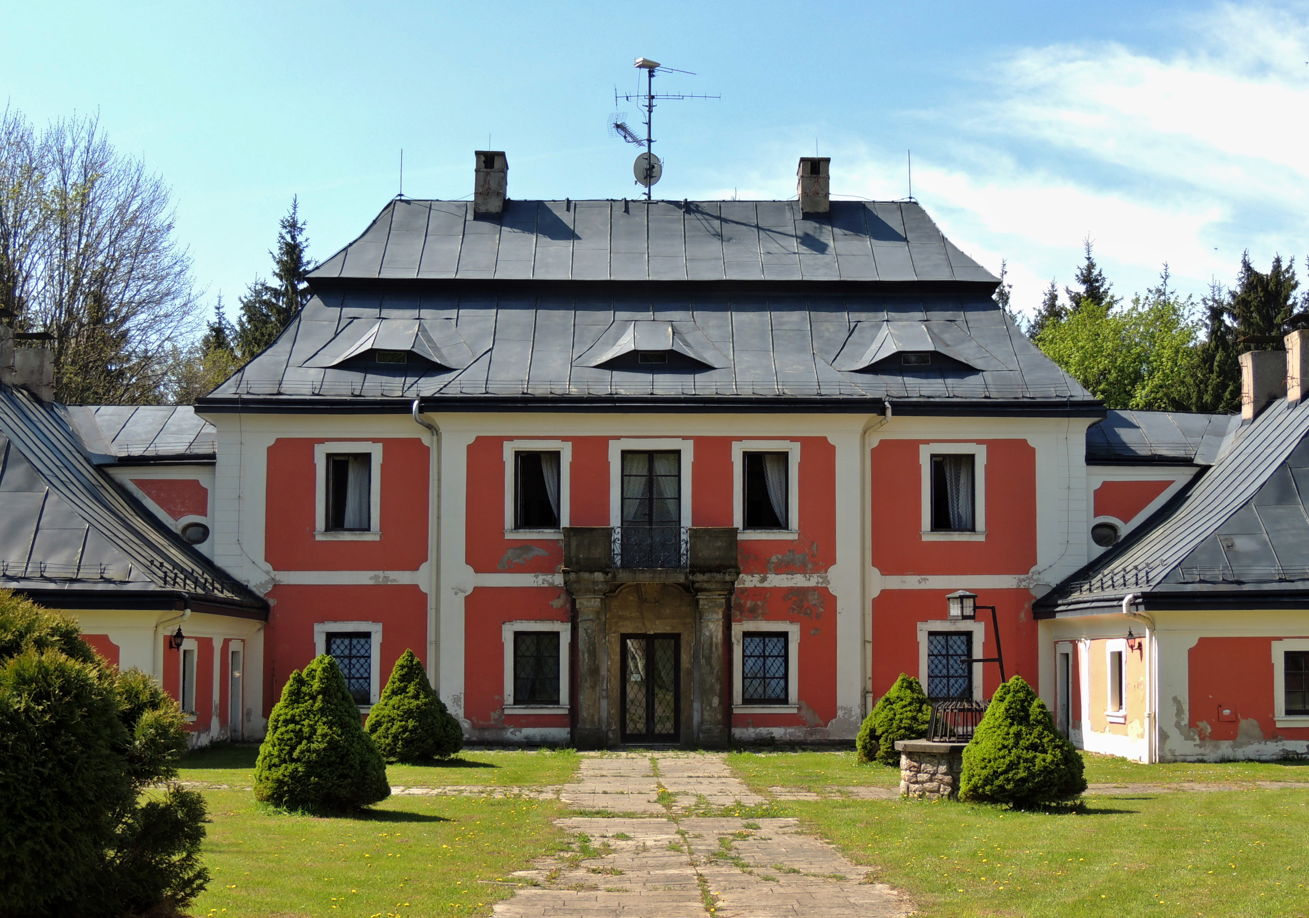 The front of the middle pavilion with a three-axis rizalit and the so-called honorary courtyard of the hunting castle Karlštejn (view from the northeast, from the gate to the courtyard). Karlštejn on the cadastral territory of Svratouch is originally a hunting castle built between 1770 and 1775 in the style of Central European Baroque, the architecture of the castle is sometimes presented as a rococo style. Since 1958 is the castle a cultural monument and has been included in the catalog of the National Monument Institute. The castle complex is situated in the settlement location of Karlštejn, part of the village Svratouch, from an administrative point of view in the district of Chrudim belonging to the Pardubice Region in the territory of the Czech Republic. Photo-location: Czechia, Pardubice Region, the village of "Svratouch", the hill with named "Karlštejn", azimuth 205°.